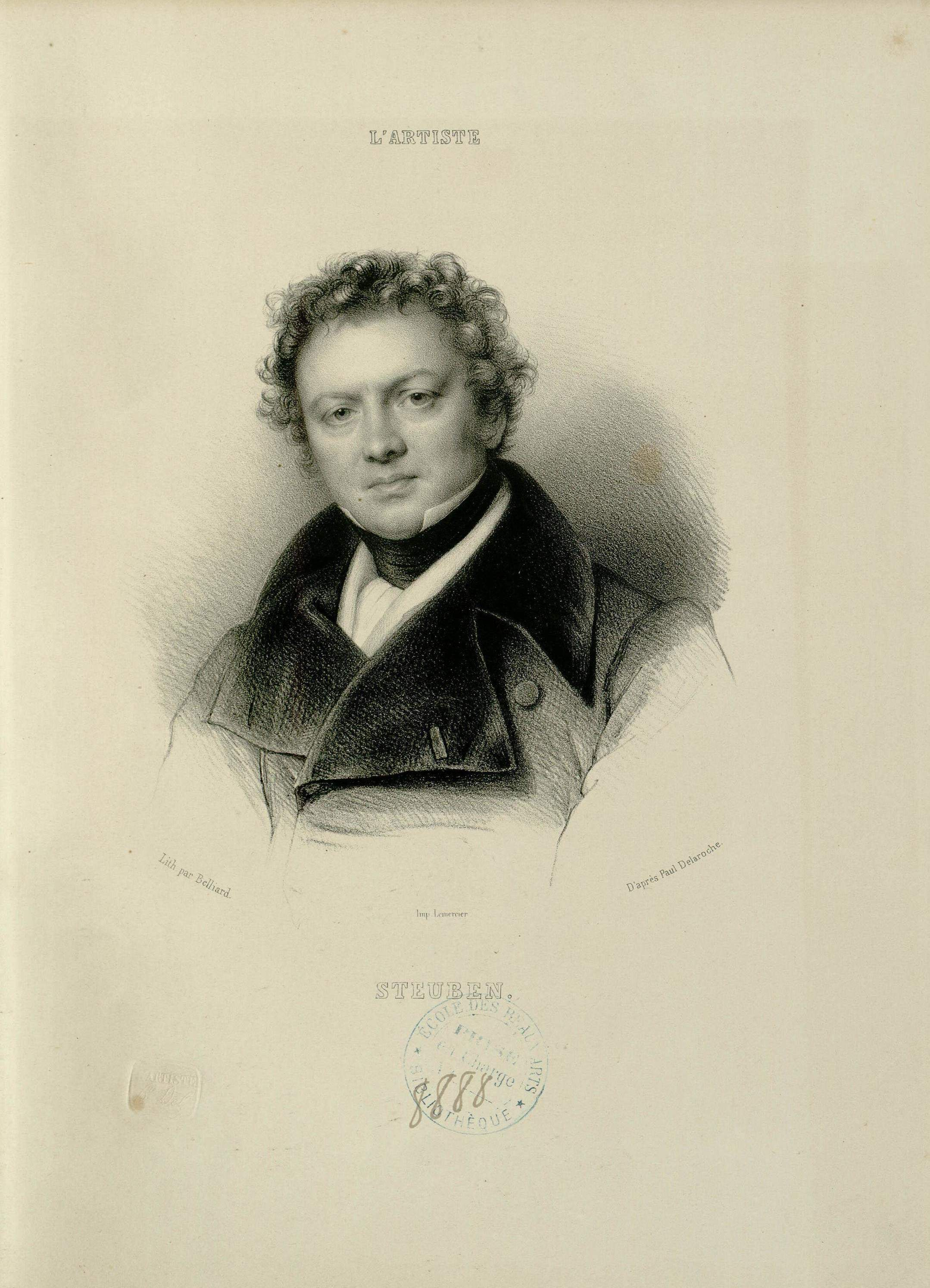 Portrait of Charles de Steuben (1788-1856)